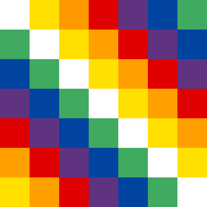 Temporary version of Banner of the Qulla Suyu.svg while it keeps its light-yellow sqares in a couple of images.